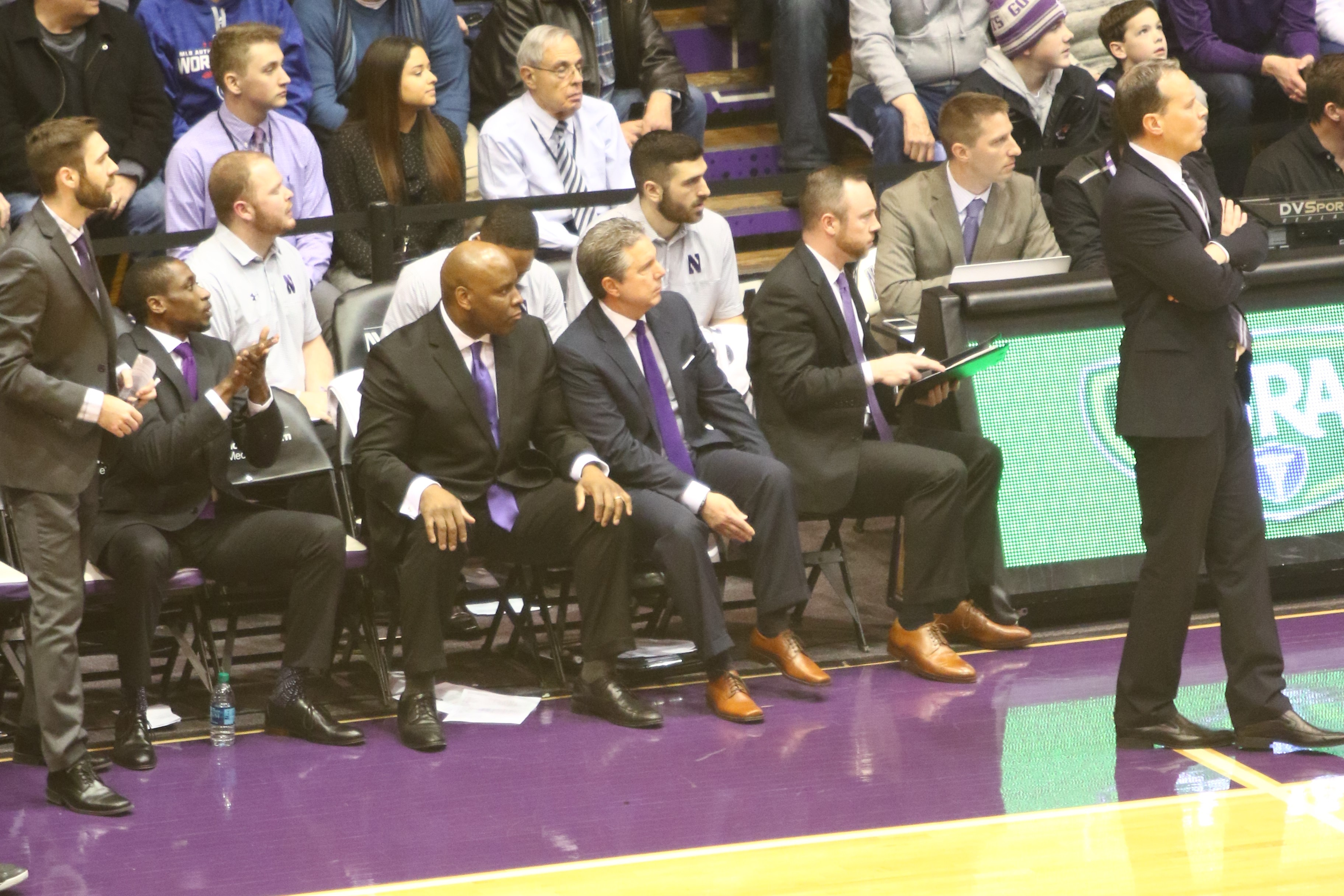 w:2016–17 Northwestern Wildcats men's basketball team coaches